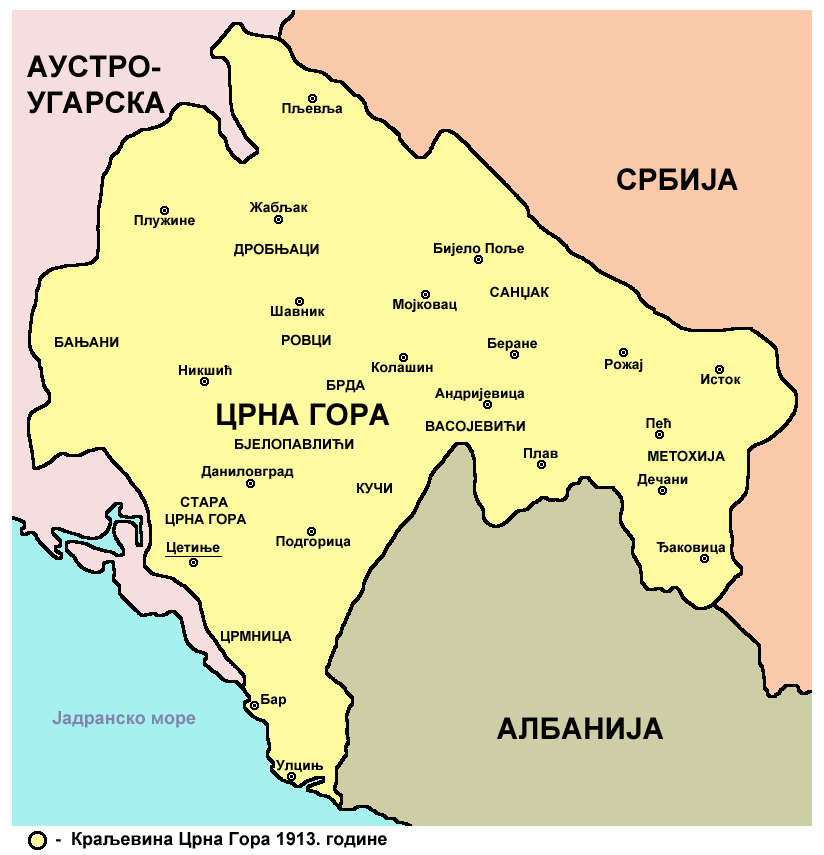 Kingdom of Montenegro in 1913 (Serbian / Montenegrin language version).